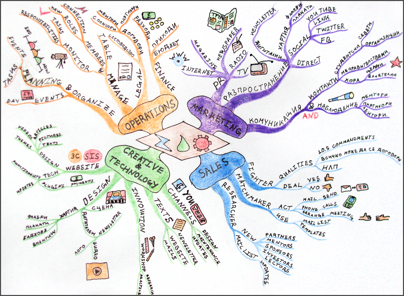 3Challenge